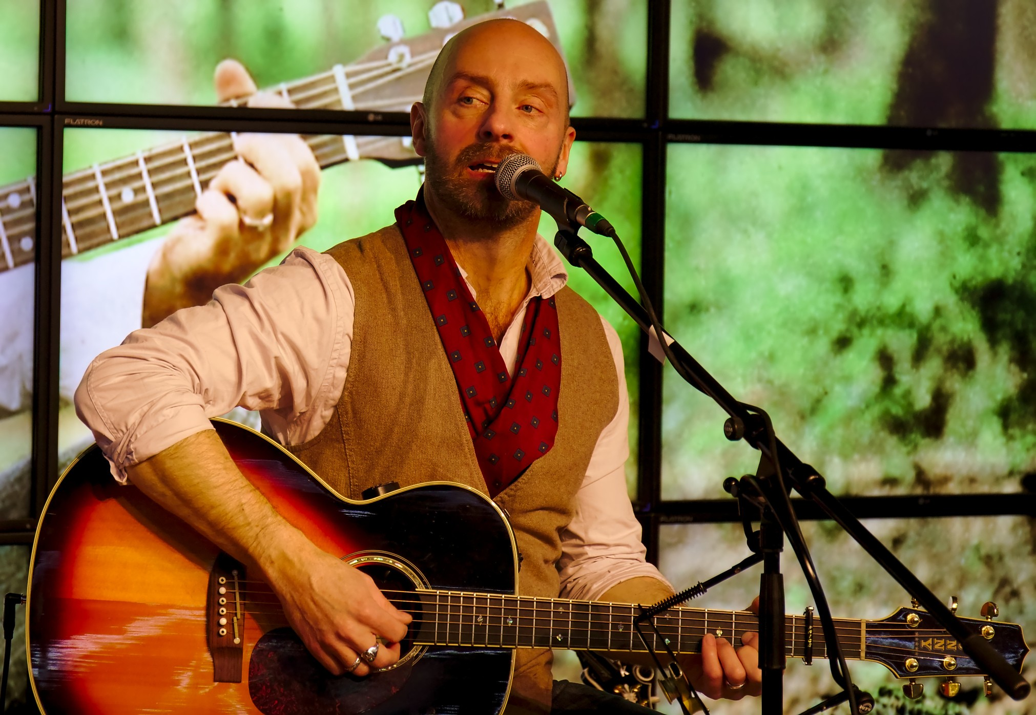 Jon Fleming Olsen in Hamburg, Germany